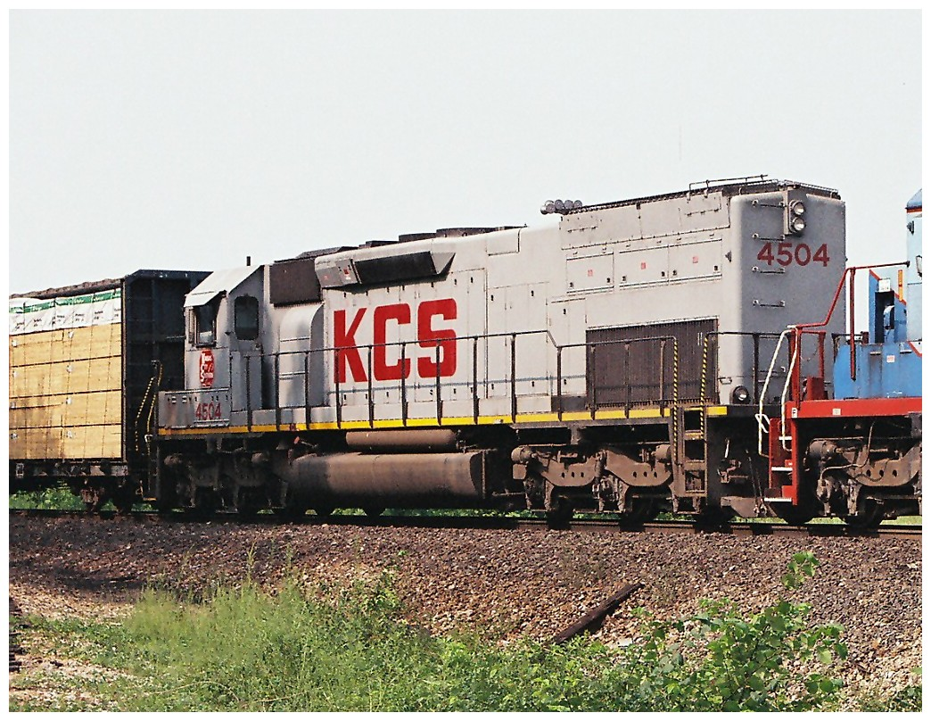 Kansas City Southern Railway #4504, EMD SD45T-2